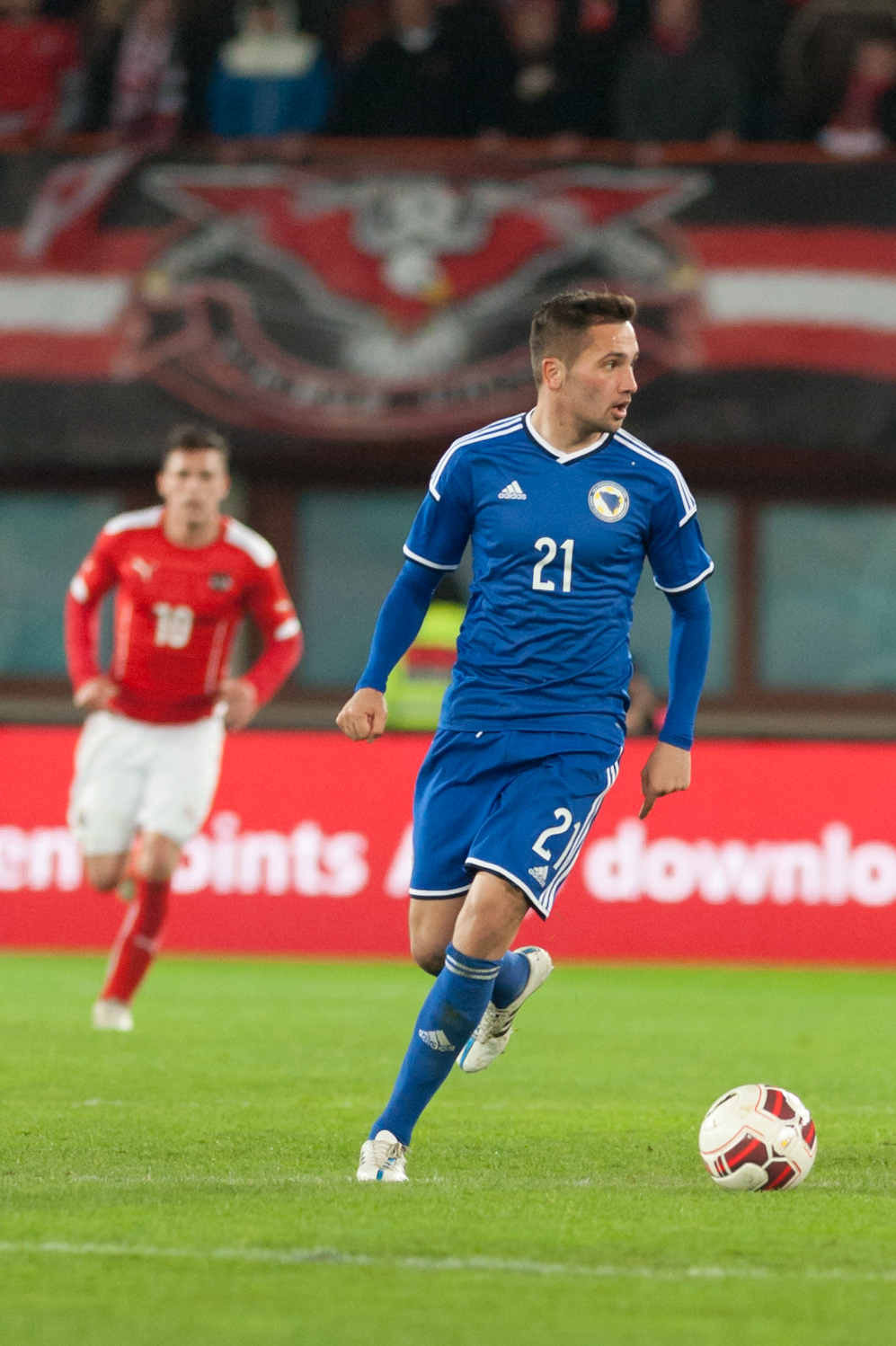 International friendly Austria vs. Bosnia and Herzegovina, 2015-03-31, Vienna